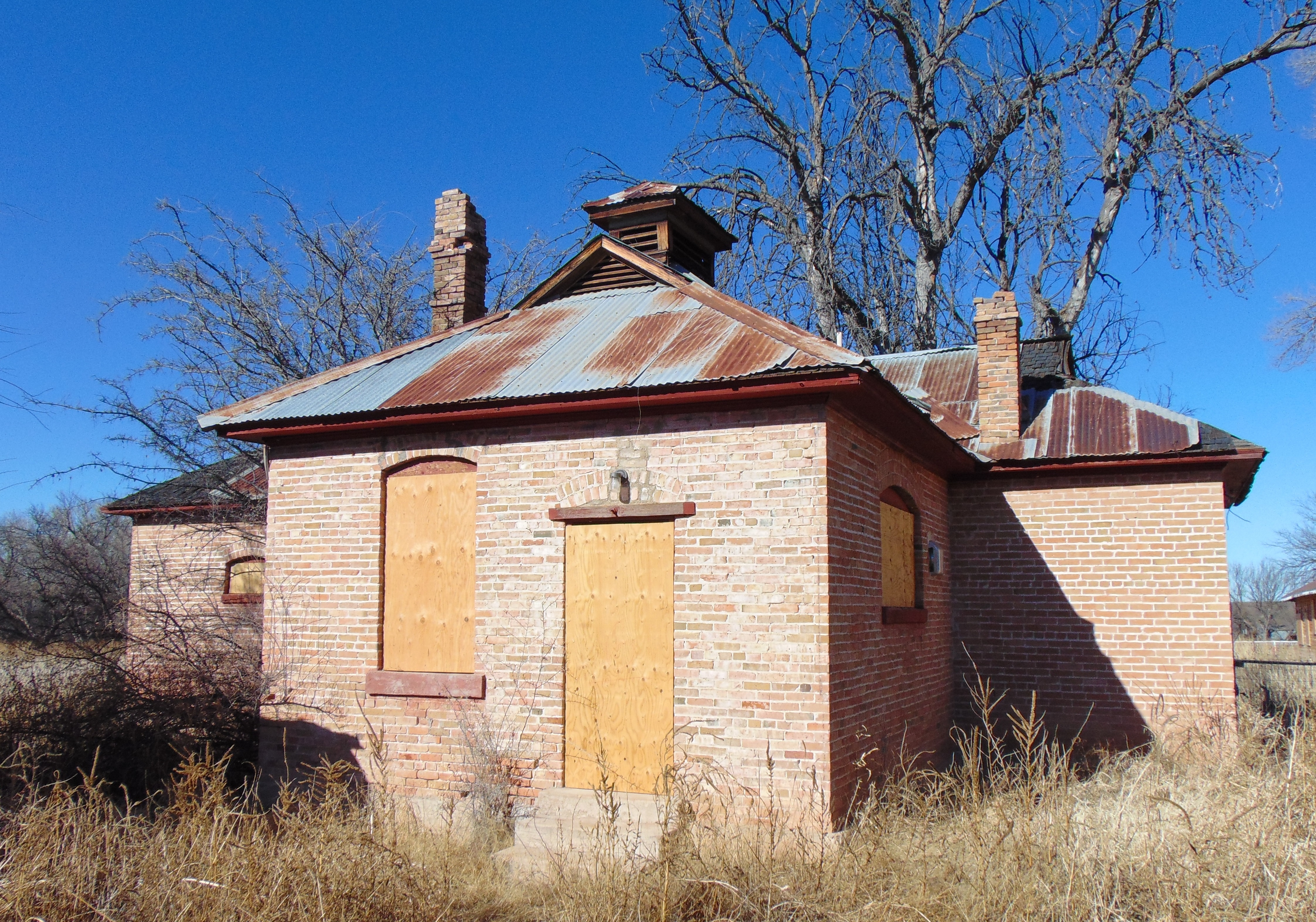 The main ranch house at the Little Boquillas Ranch in Cochise County, Arizona.